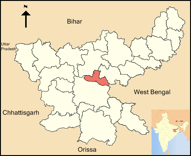 A locator map of Ramgarh district, Jharkhand